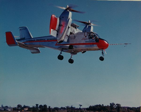 Catalog #: 00076557 Manufacturer: Canadair Designation: CL-84-1 Notes: General Dynamics